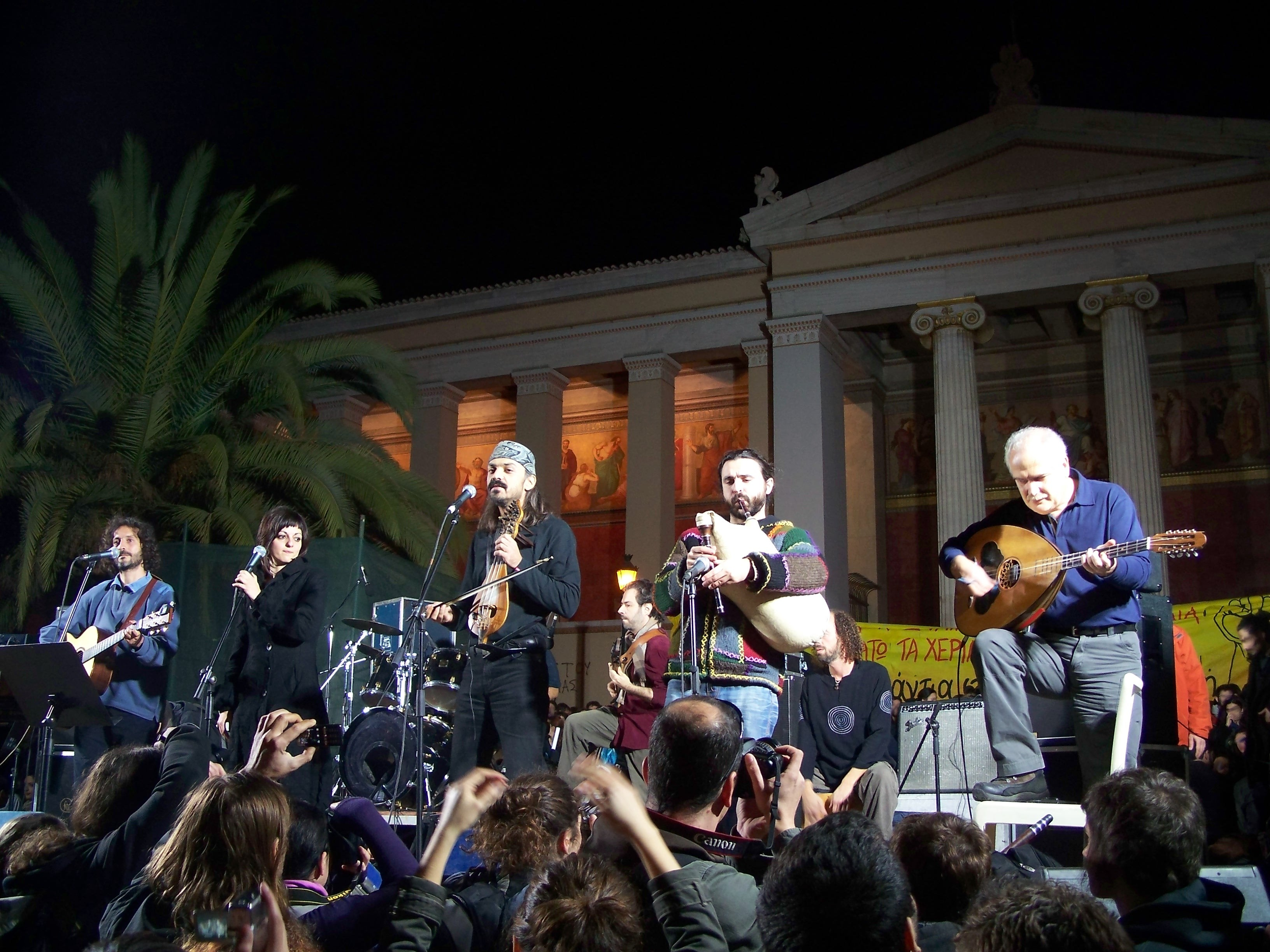 Greek traditional band Chainides.